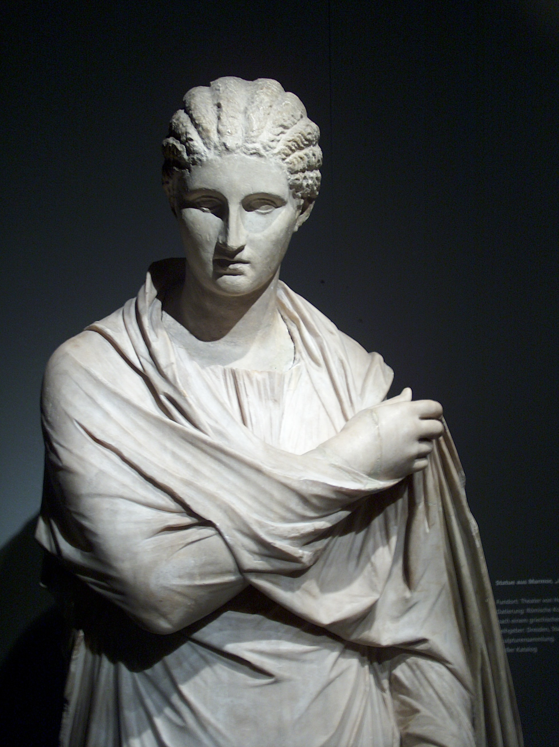 Small Herculaneum Woman, Roman, 30–1 B.C. Statue now in the Skulpturensammlung, Staatliche Kunstsammlungen Dresden. Photo taken at the Pergamon Museum of a statue part of the temporary Pompei exposition